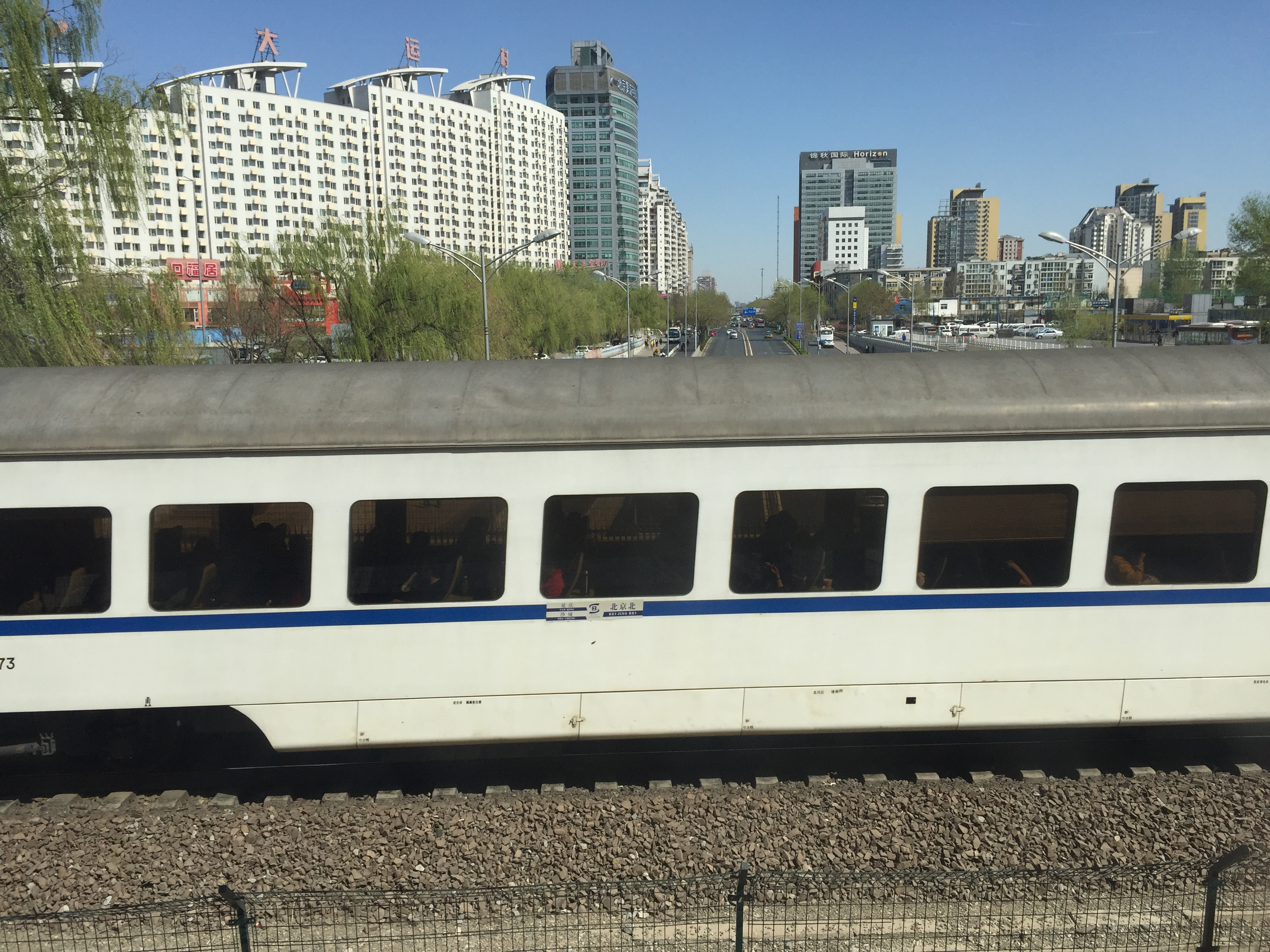 Line S2 going thought Zhichunlu Station 中文（中国大陆）: 市郊铁路S2线经过知春路站